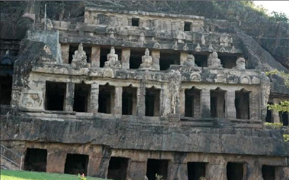 Undavalli caves near Vijayawada